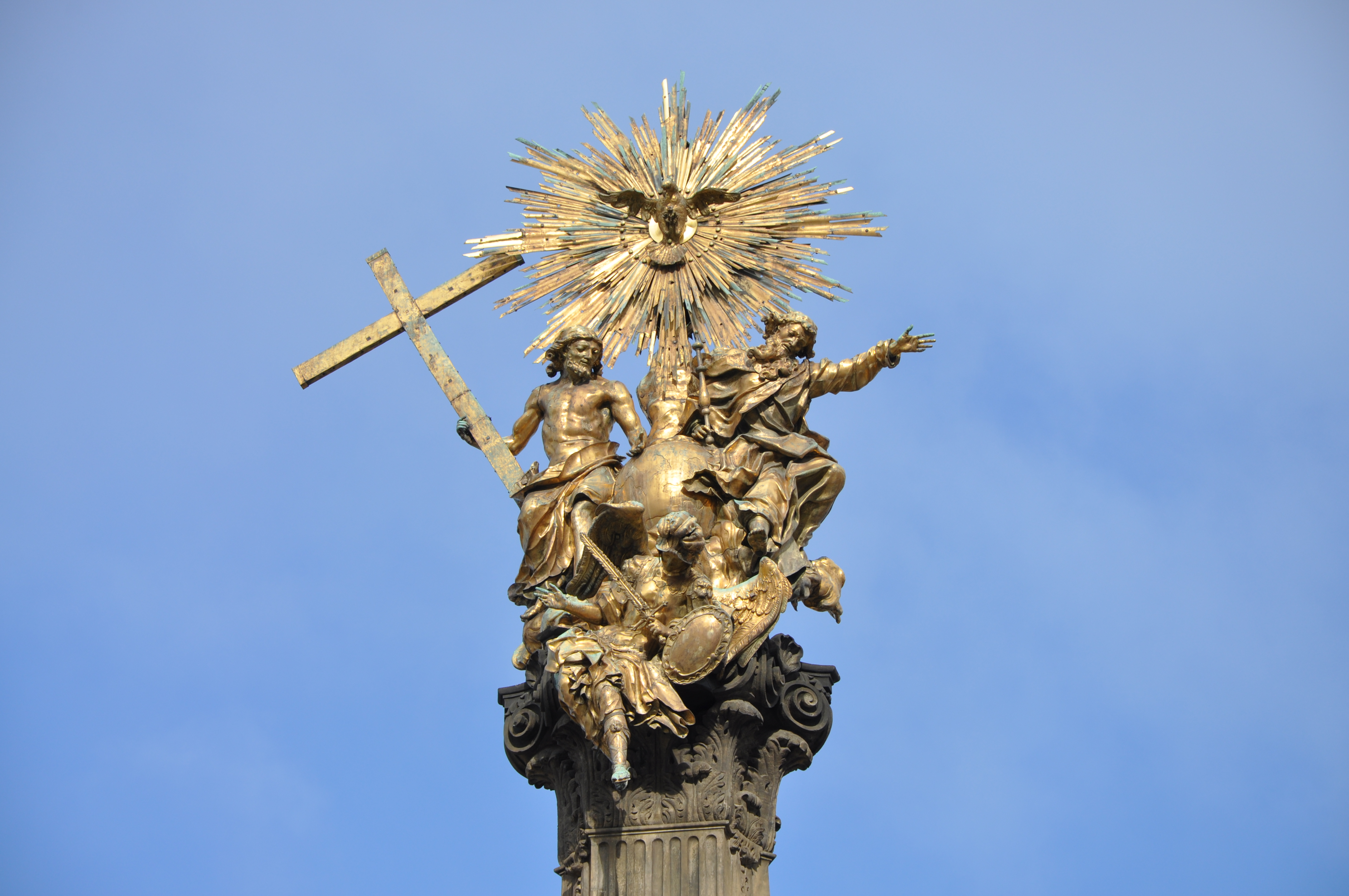 Statue of the Holy Trinity on the top of the Holy Trinity Column in Olomouc, the Czech Republic. God the Father and the Son stand on the sides of the Earth, the Holy Spirit is placed above them and Archangel Michael with a sword and a shield below them. The statue was made by Olomouc goldsmith Simon Forstner, who lost his health when working on the sculptures and using toxic mercury compounds during the gilding process.